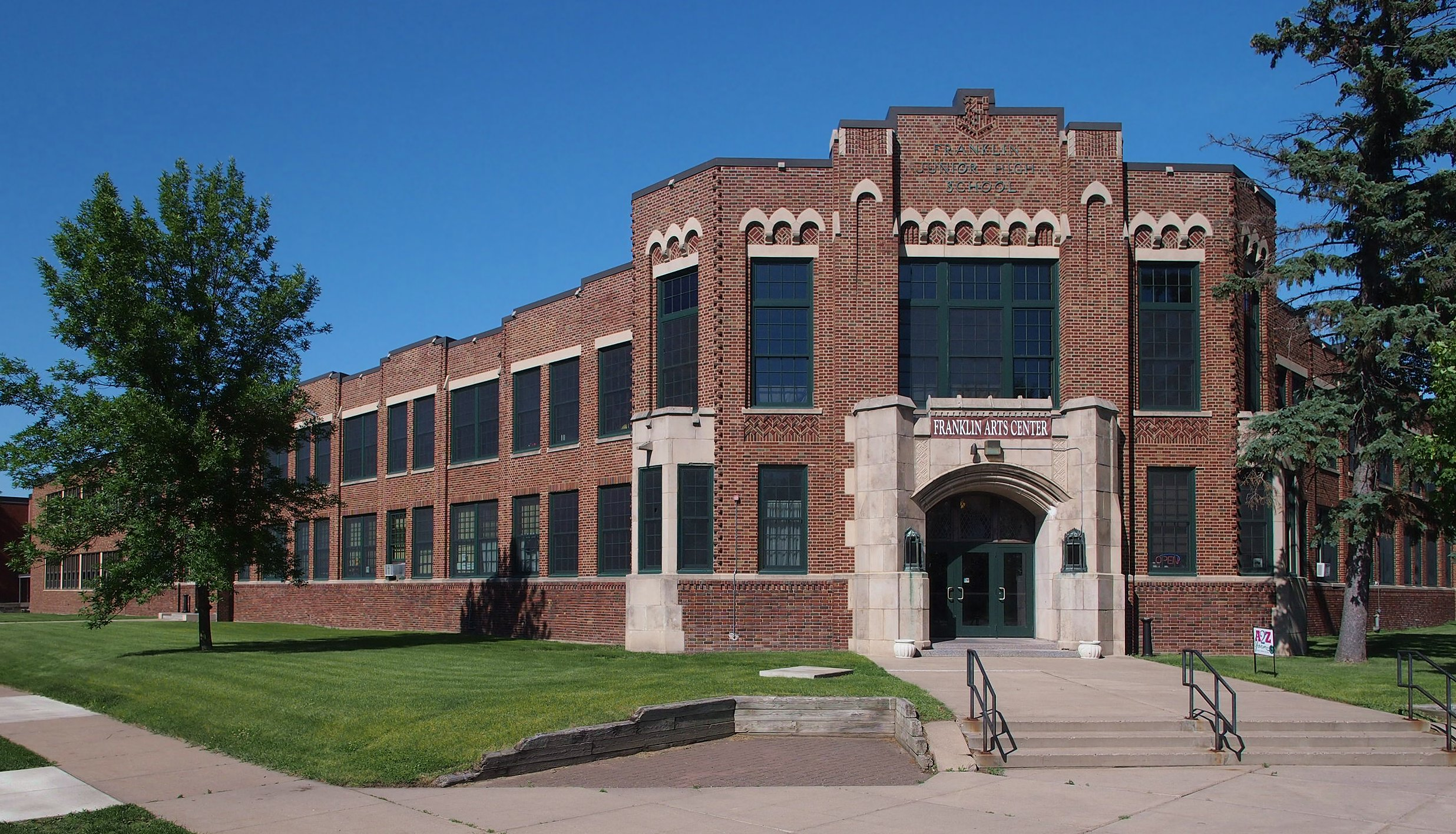 Franklin Junior High School, 1001 Kingwood St, Brainerd, Minnesota, USA. Viewed from the southwest.